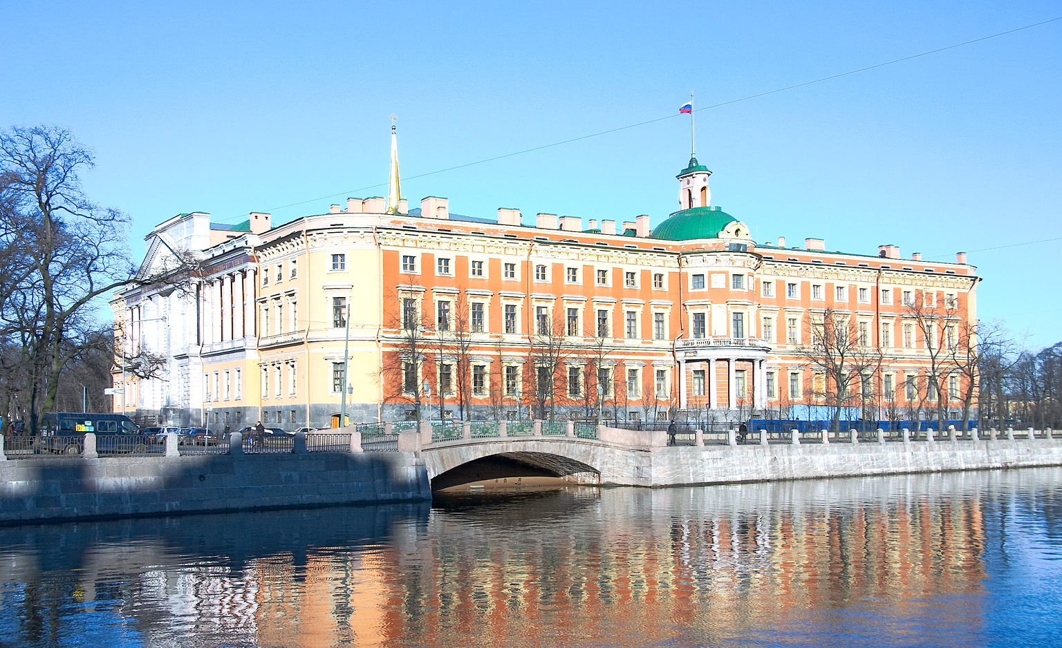 St Michael's Castle with the Second Engineer bridge in Saint Petersburg